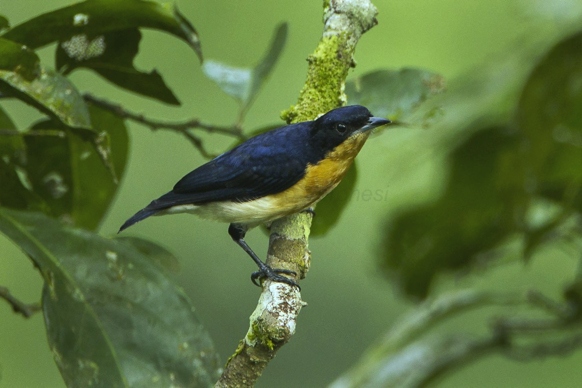 A Violet-baked Hyliota (Hyliota violacea) in the Kakum National Park (Ghana)